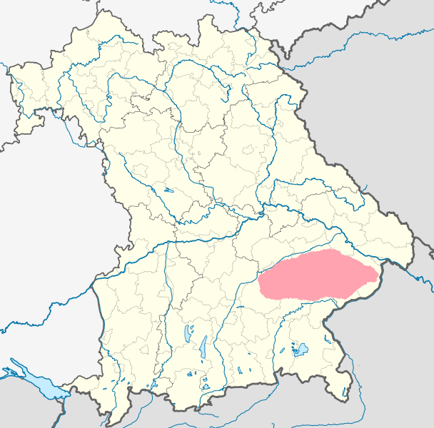 Location map Bavaria, Germany. Geographic limits of the map: * N: 50.6303000° N * S: 47.26618° N * W: 8.897552° O * E: 14.059753° O